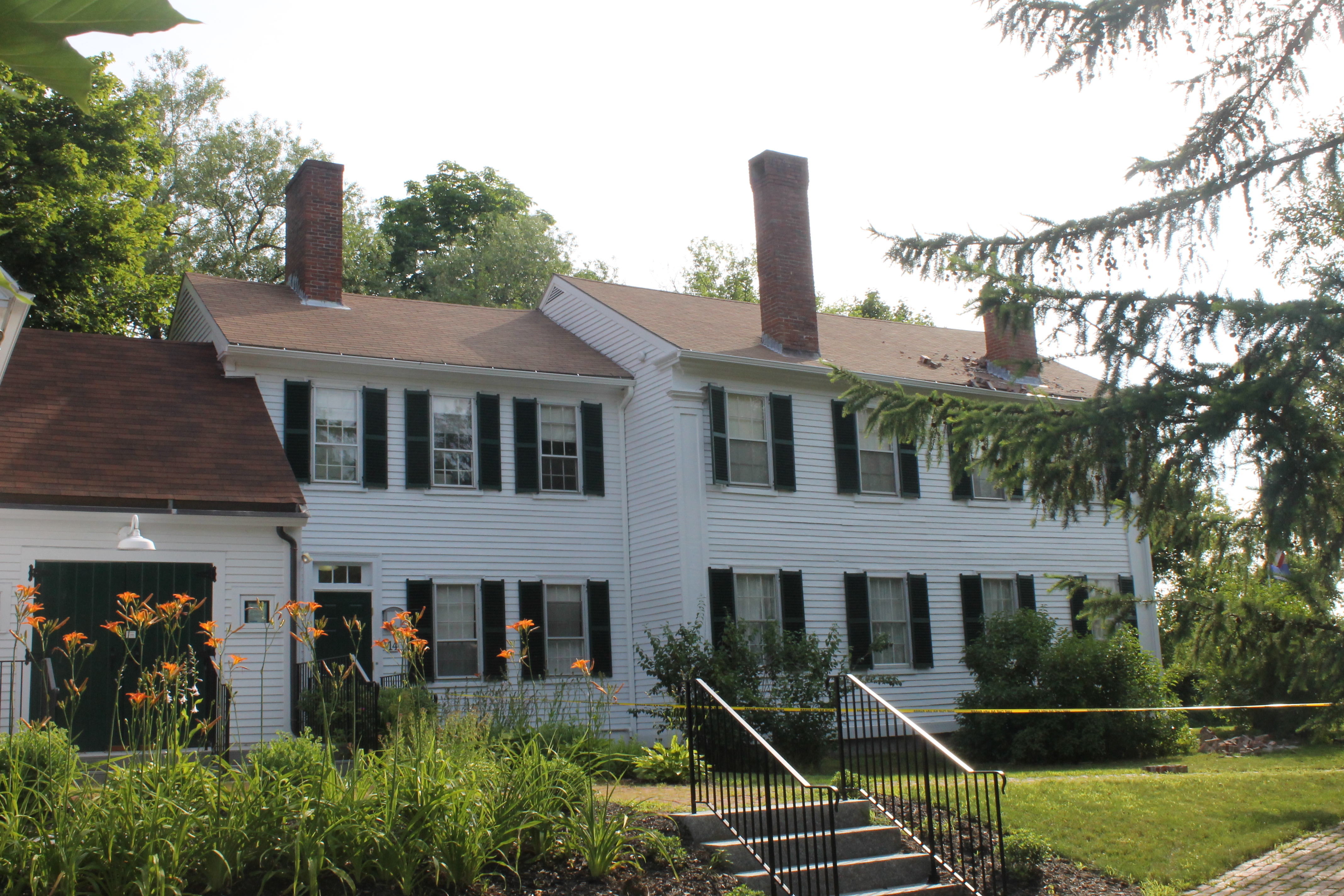 I took photo of Pierce Manse, home of Franklin Pierce, in Concord, NH, with Canon camera.